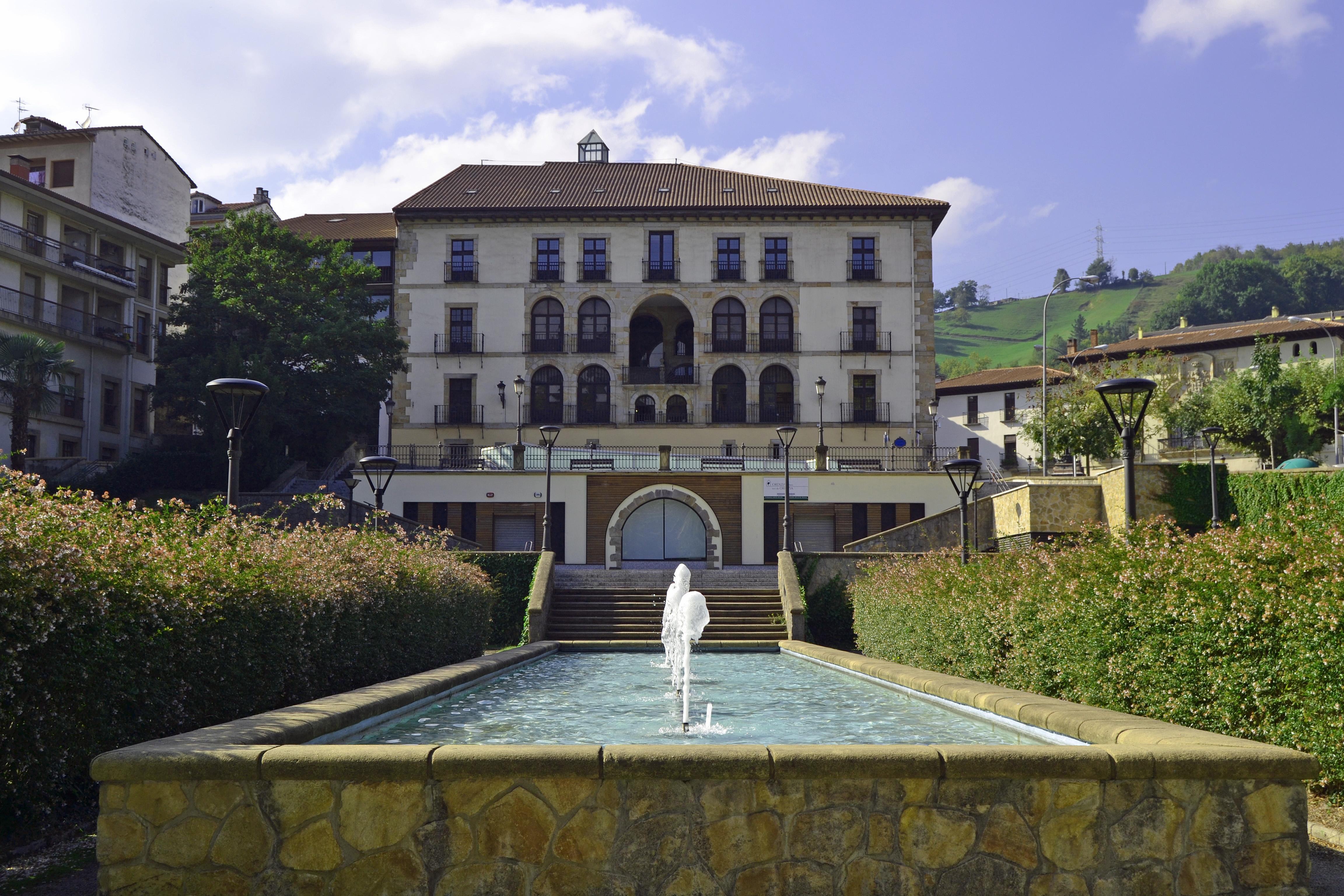 Barrena palace, Ordizia. Gipuzkoa, Basque Country.